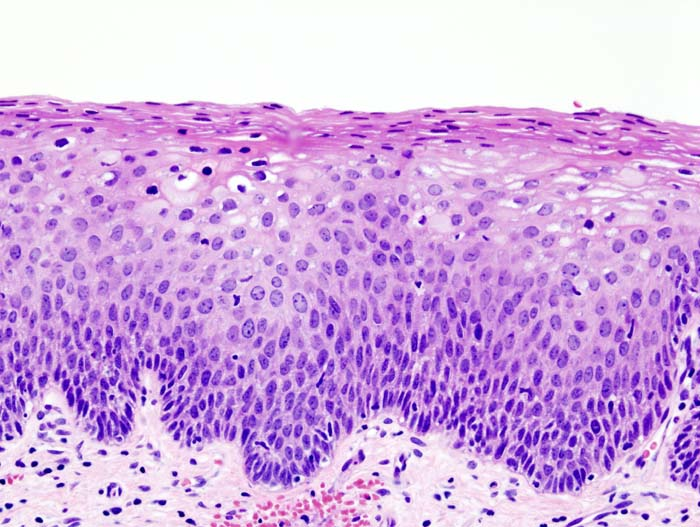 Histopathologic image of cervical intraepithelial neoplasia (CIN2). H & E stain.